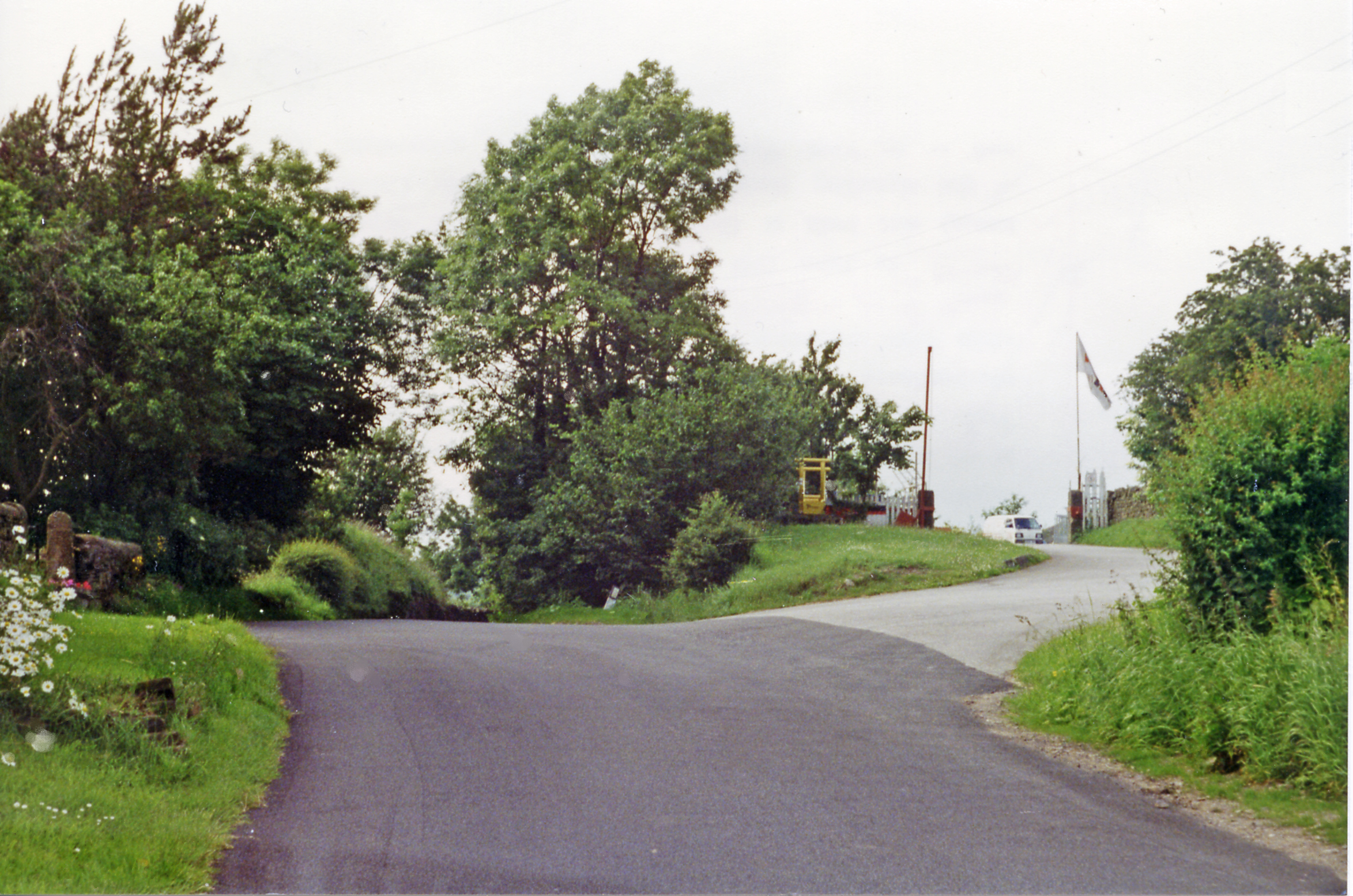 Site of former Elslack station, 1996. View NW at bridge over the course of the ex-Midland Skipton (to right) - Colne (to left) line, a useful cross-Pennine connecting line. The station had been below on the right and was closed as long ago as 3/3/52, but the line survived until 2/2/70.